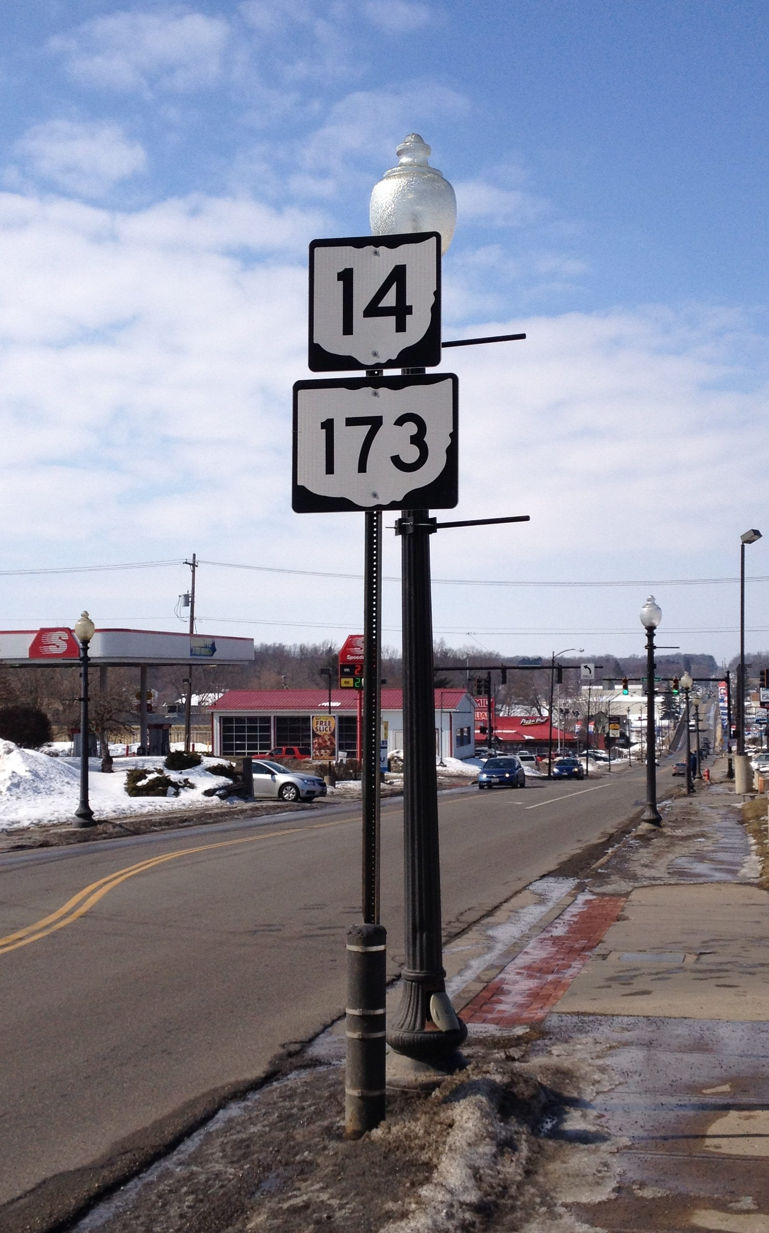 Ohio Route 173's eastern terminus, conjoined with Ohio Route 14, in Salem, Ohio.